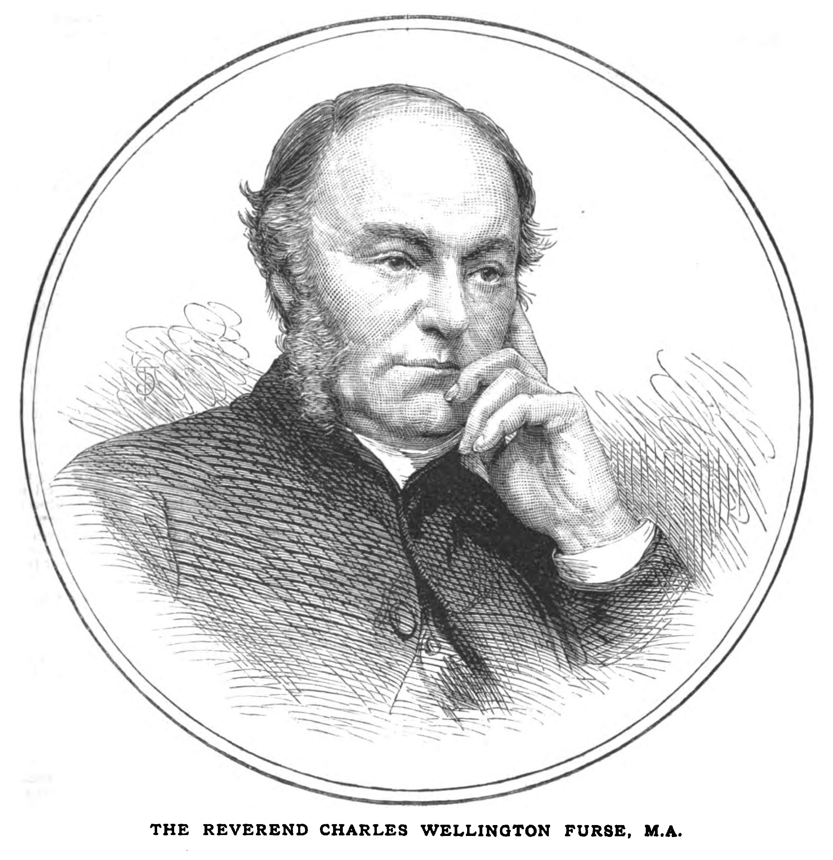 Charles Wellington Furse, the father of the painter with the same name, was an Anglican priest